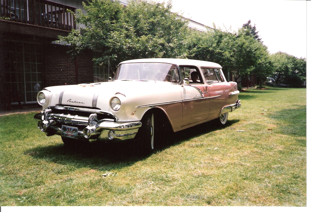 1956 Pontiac Star Chief Custom Safari 2-door station wagon